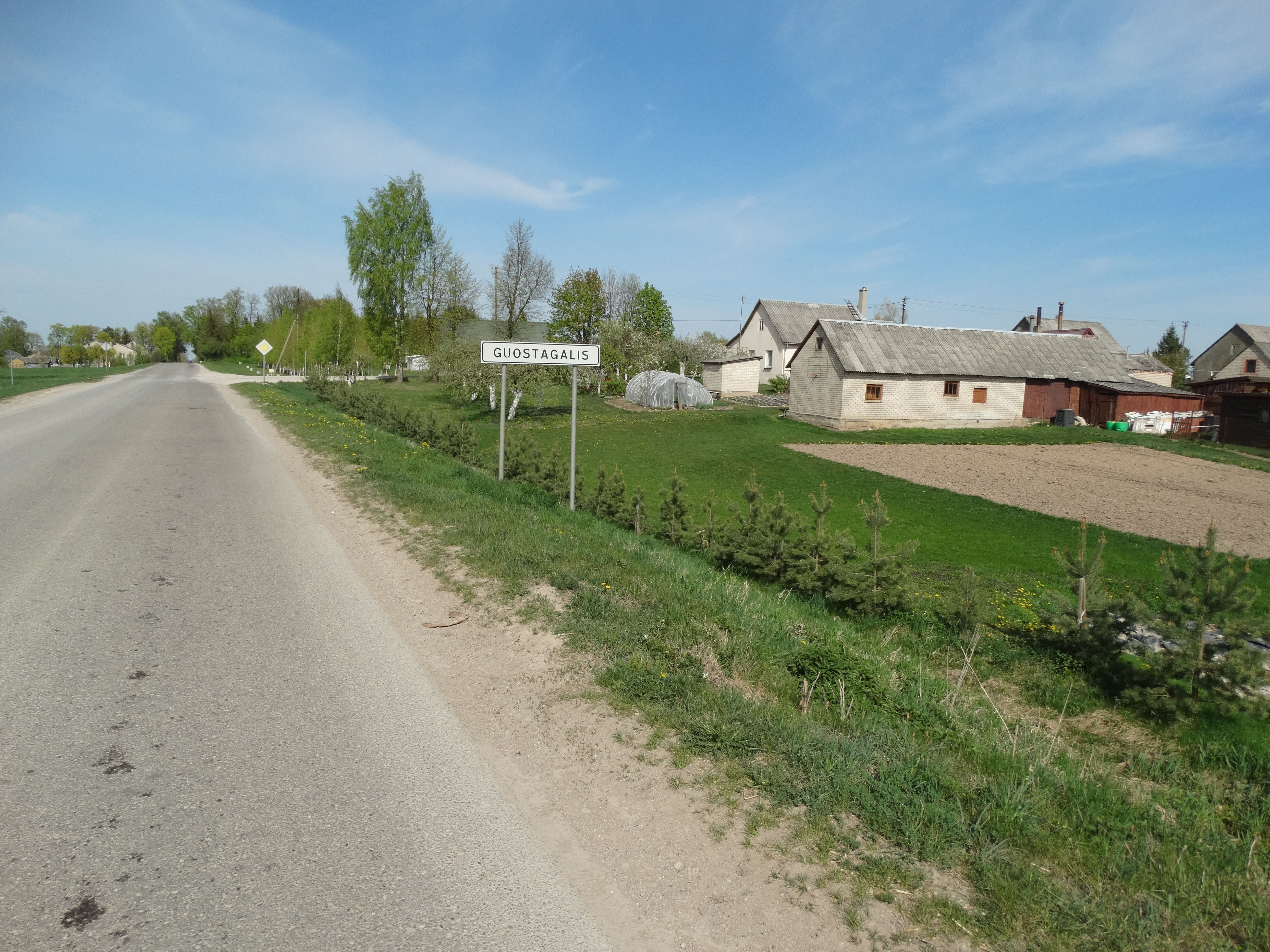 Guostagalis, former school, Pakruojis District, Lithuania